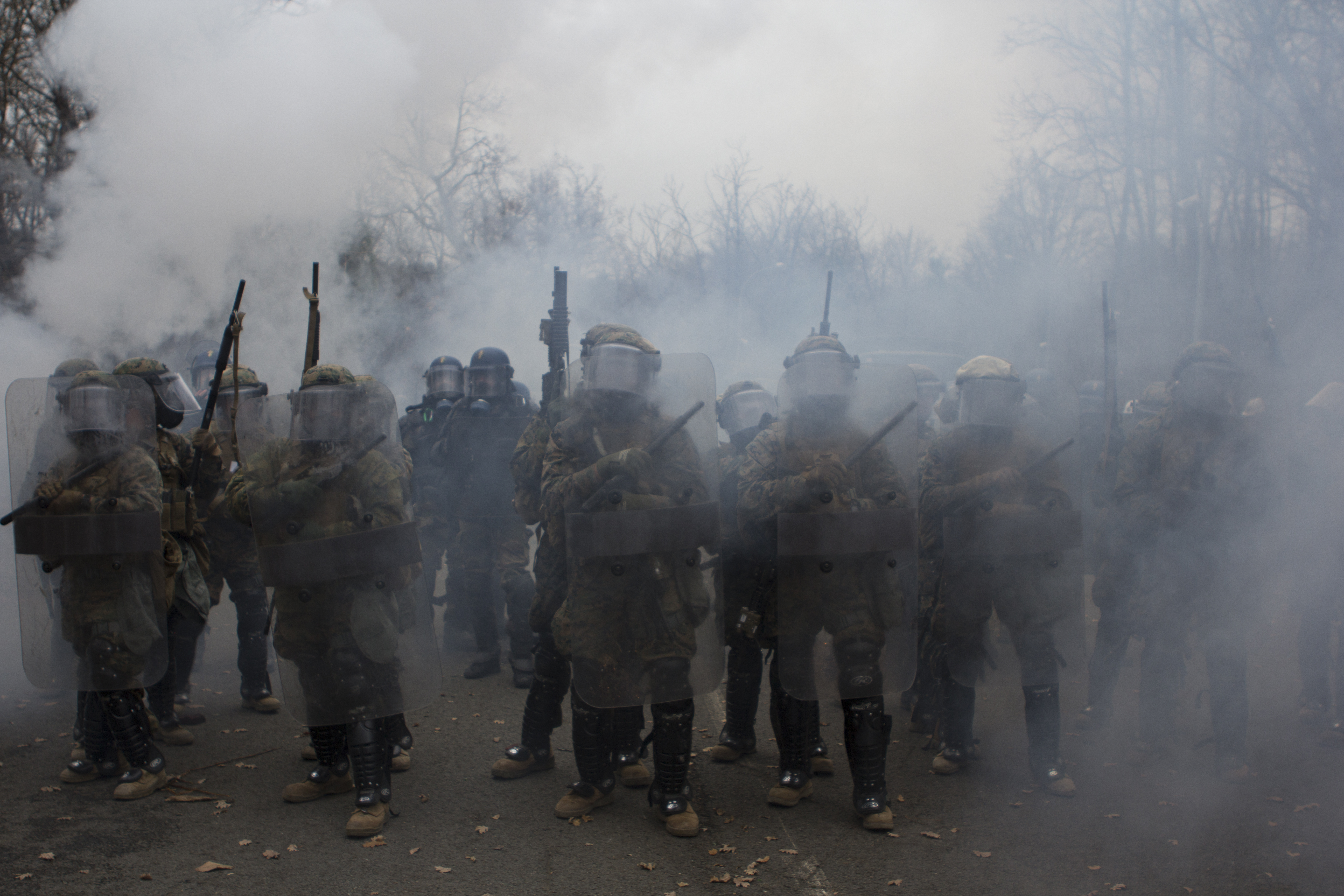 U.S. Marines with SPMAGTF Crisis Response – Africa and French gendarmes with Mobile Gendarmeries Armored Group work together to control a mock riot caused by role-players, while training in crowd and riot control techniques at the National Gendarmerie Training Center in St. Astier, France, Dec. 2, 2014. The exercise allowed the Marines to gain greater knowledge of non-lethal tactics, techniques and procedures while enhancing interoperability with the French Gendarmerie and strengthening the U.S. partnership with France. (U.S. Marine Corps photo by Cpl Jeraco Jenkins/Released).